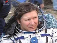 Gennady Padalka rests outside the Soyuz TMA-04M spacecraft moments after landing.